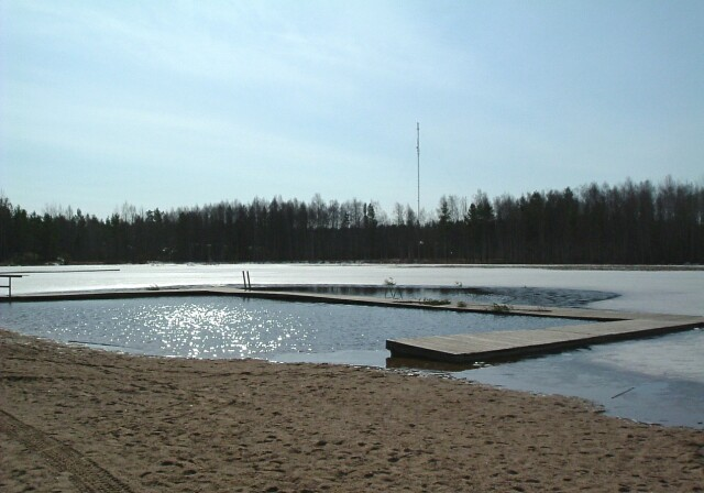 Eteläpää in Siikainen, Finland